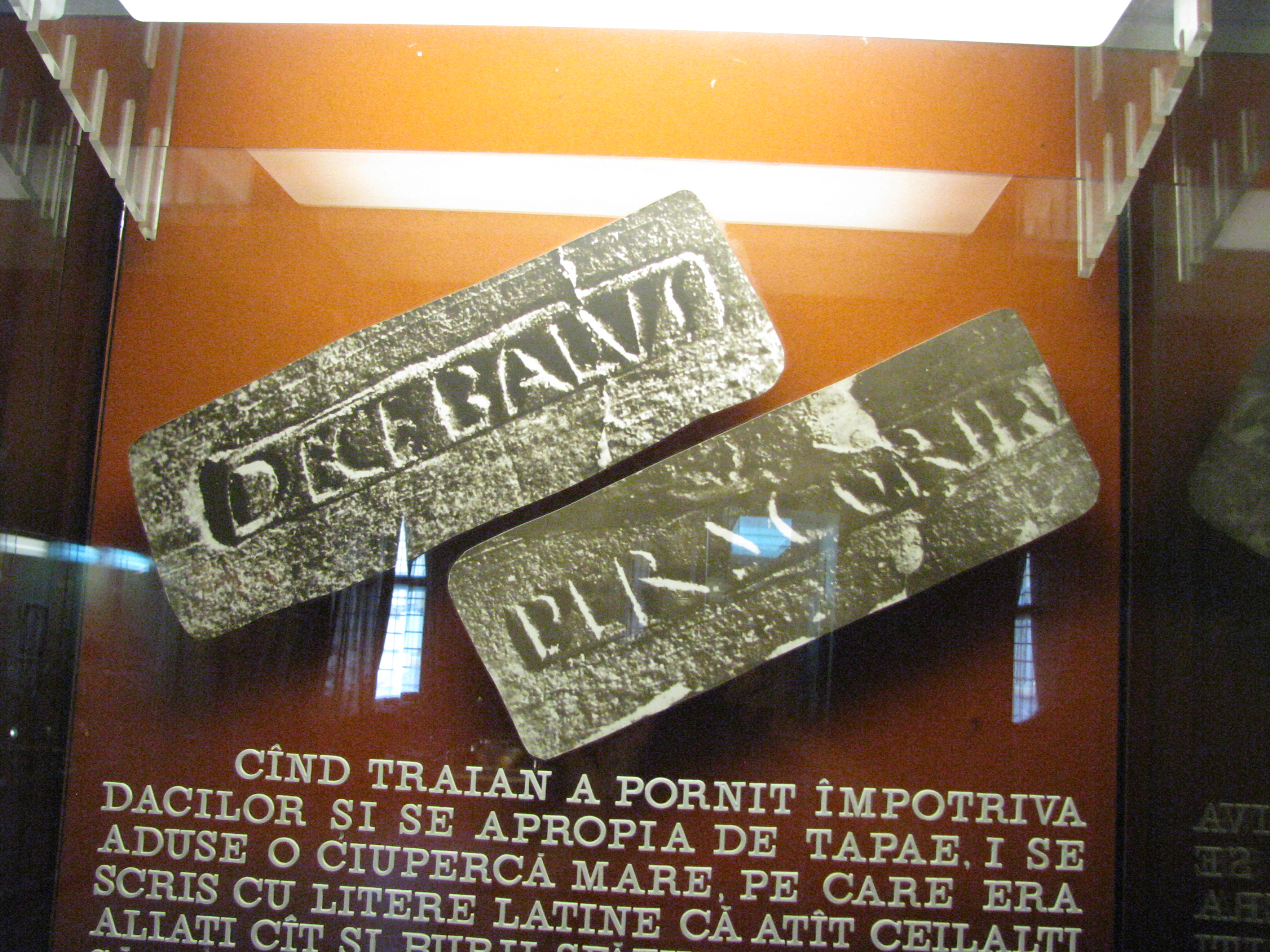 Alba Iulia National Museum of the Union 2011